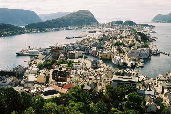 Ålesund, Norway.